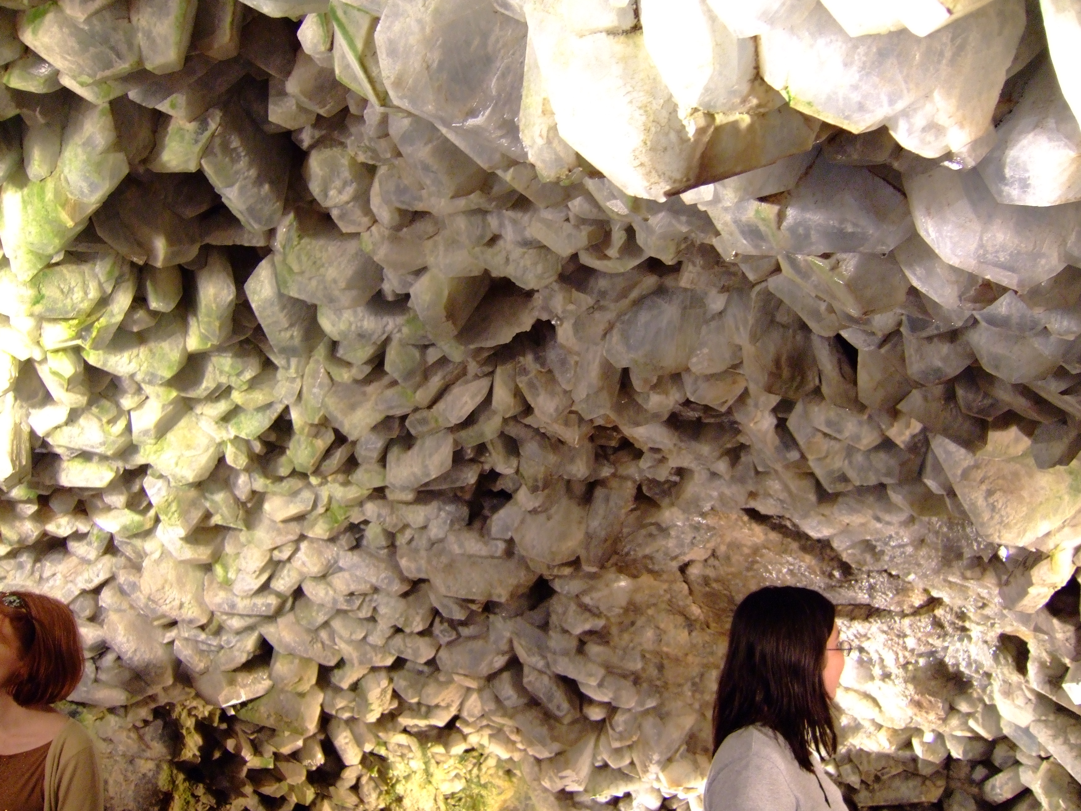 The Crystal Cave, the worlds largest geode. Located under Heinemans Winery, Put-In-Bay, Ohio. Self made photo.